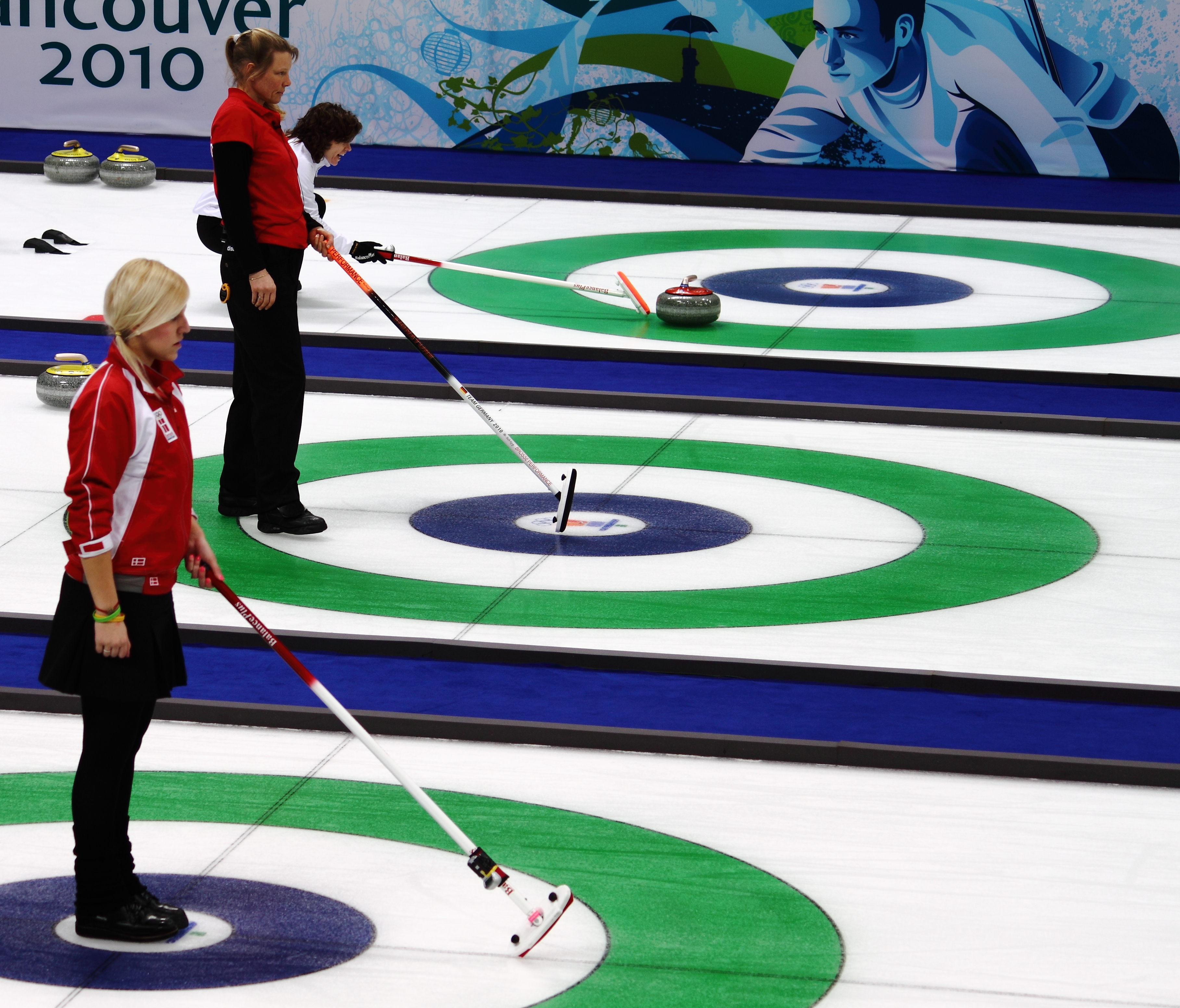 2010 Vancouver Olympic Games - Women's Curling - Preliminary from Vancouver Olympic Centre